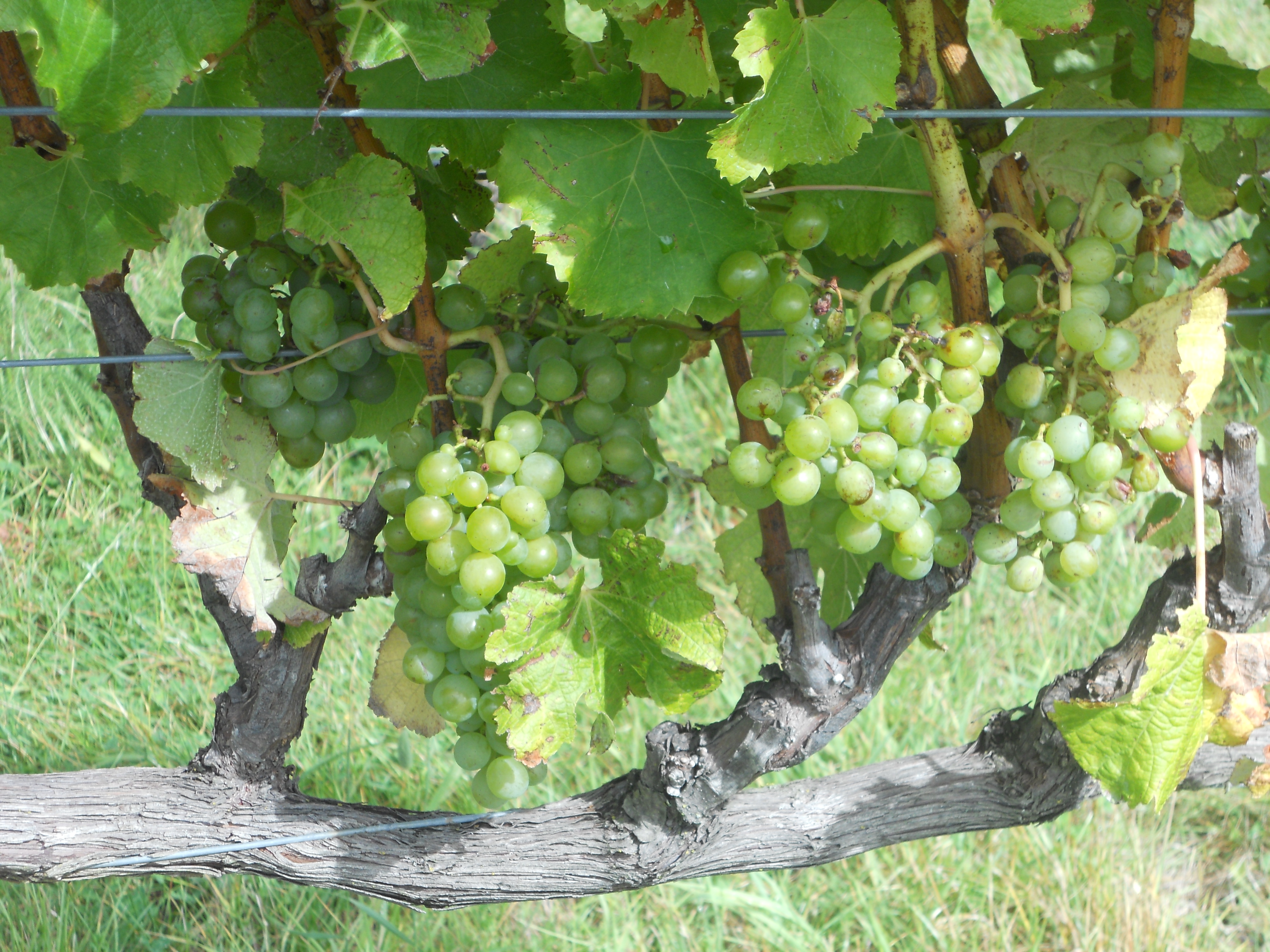 Semillon grapes on the vine